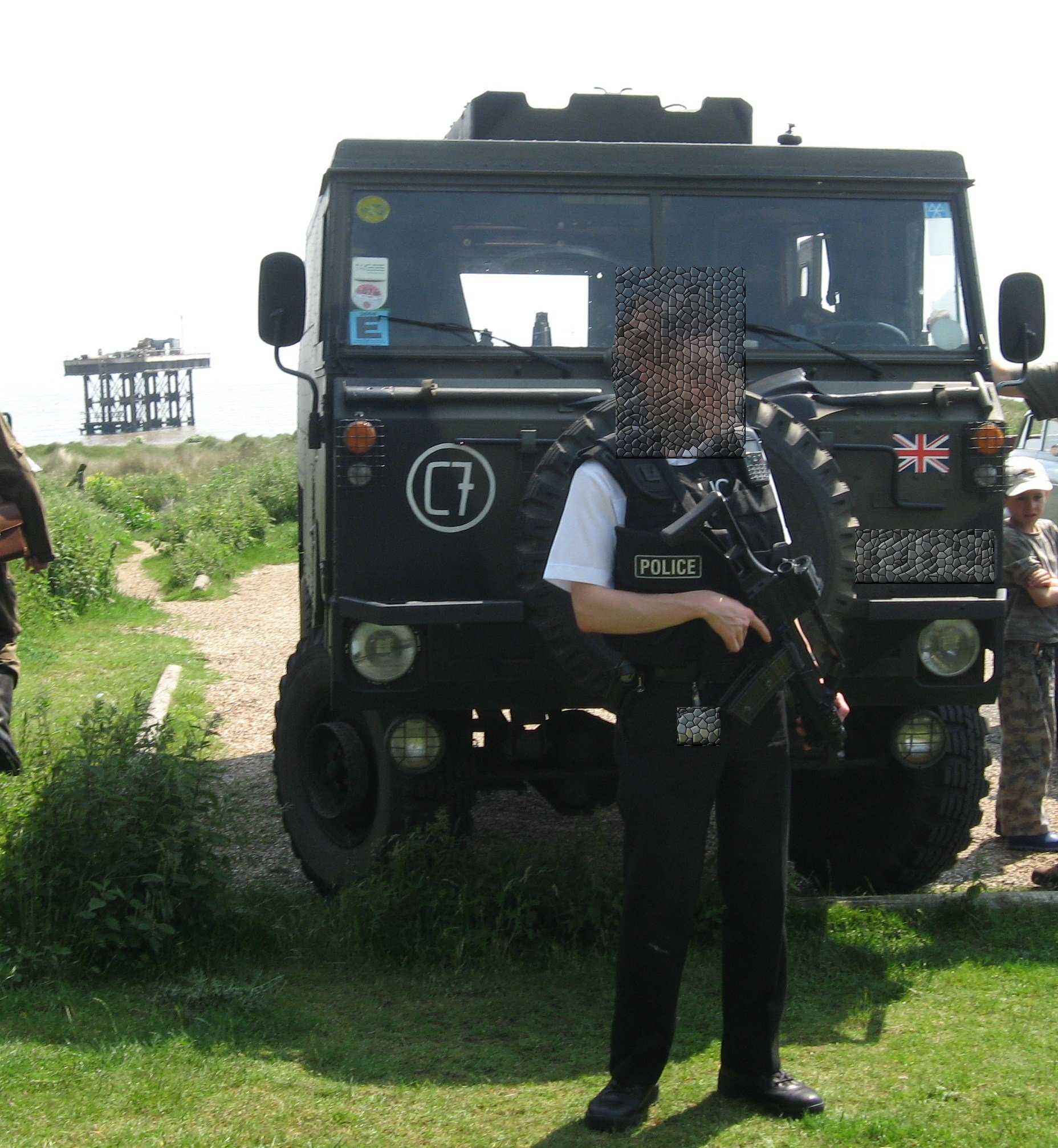 CNC support unit